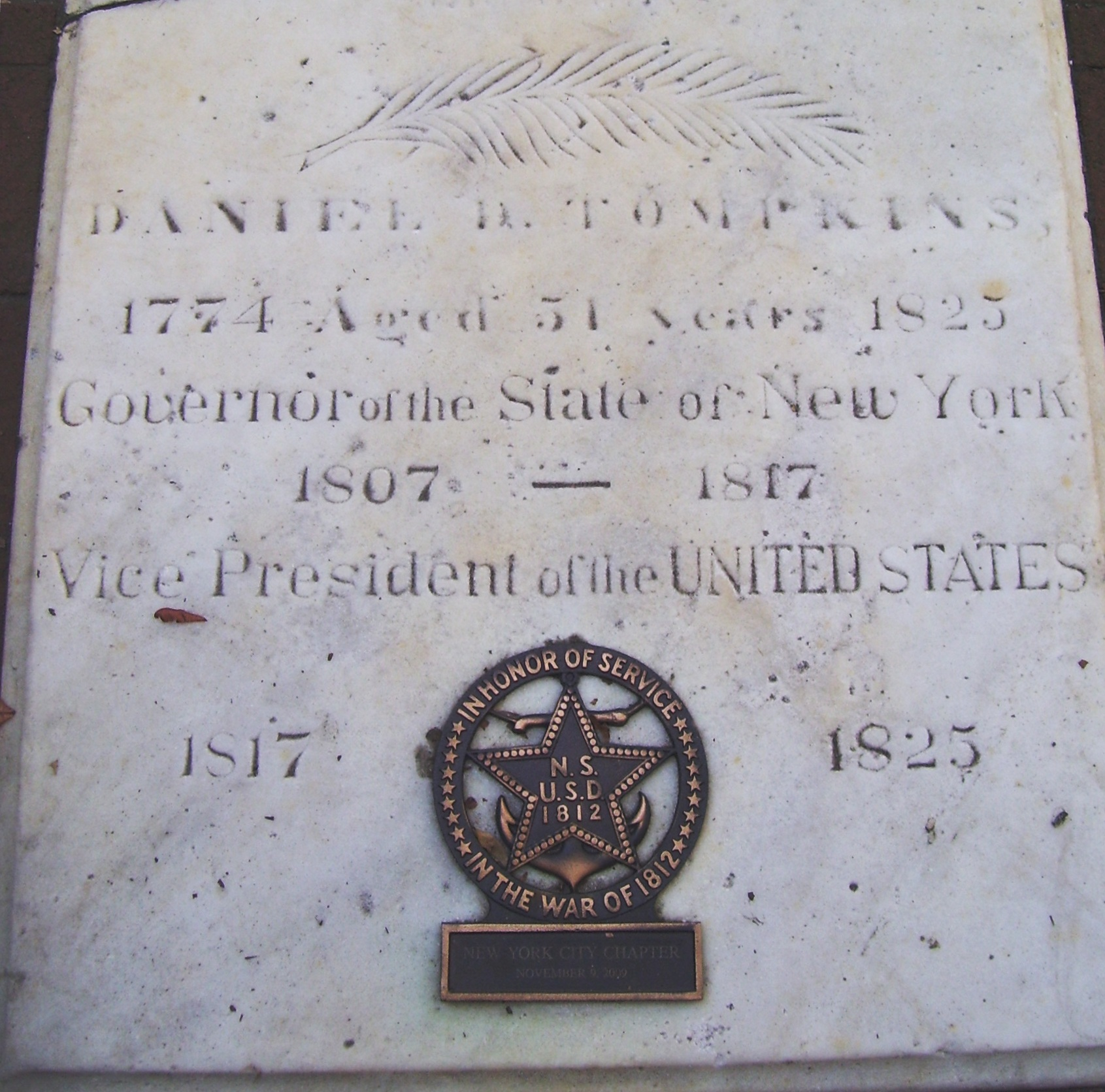 The cover to the vault in which the remains of Daniel D. Tompkins, 6th Vice President of the United States, are interred, in the west yard of St. Mark's Church in-the-Bowery, in the East Village, Manhattan, New York City